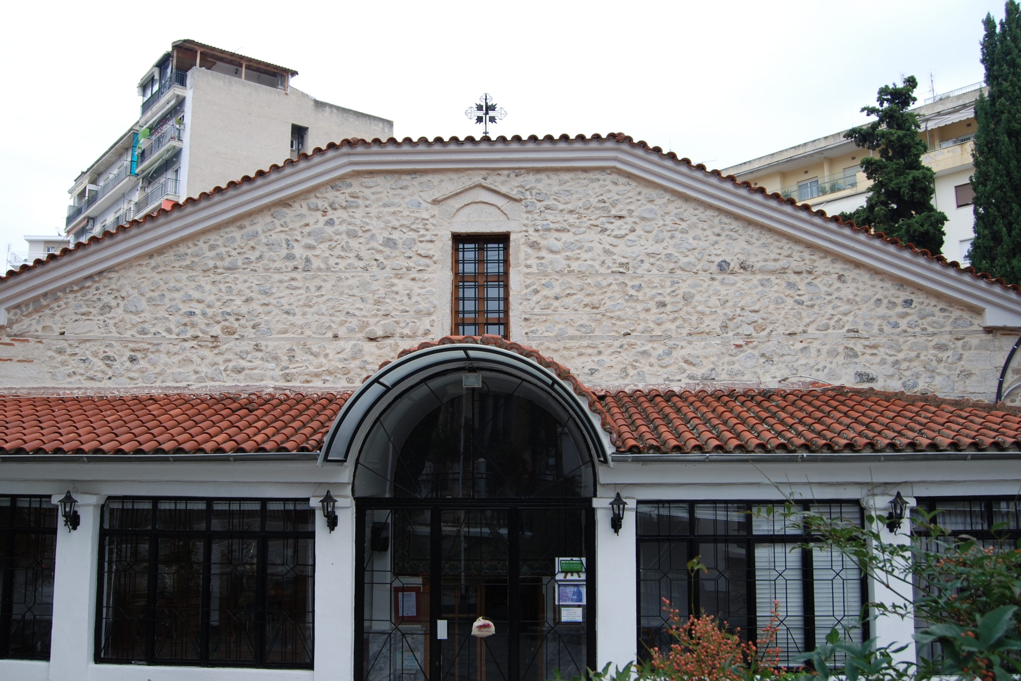 Saint Marina and Saint Anthonius Church